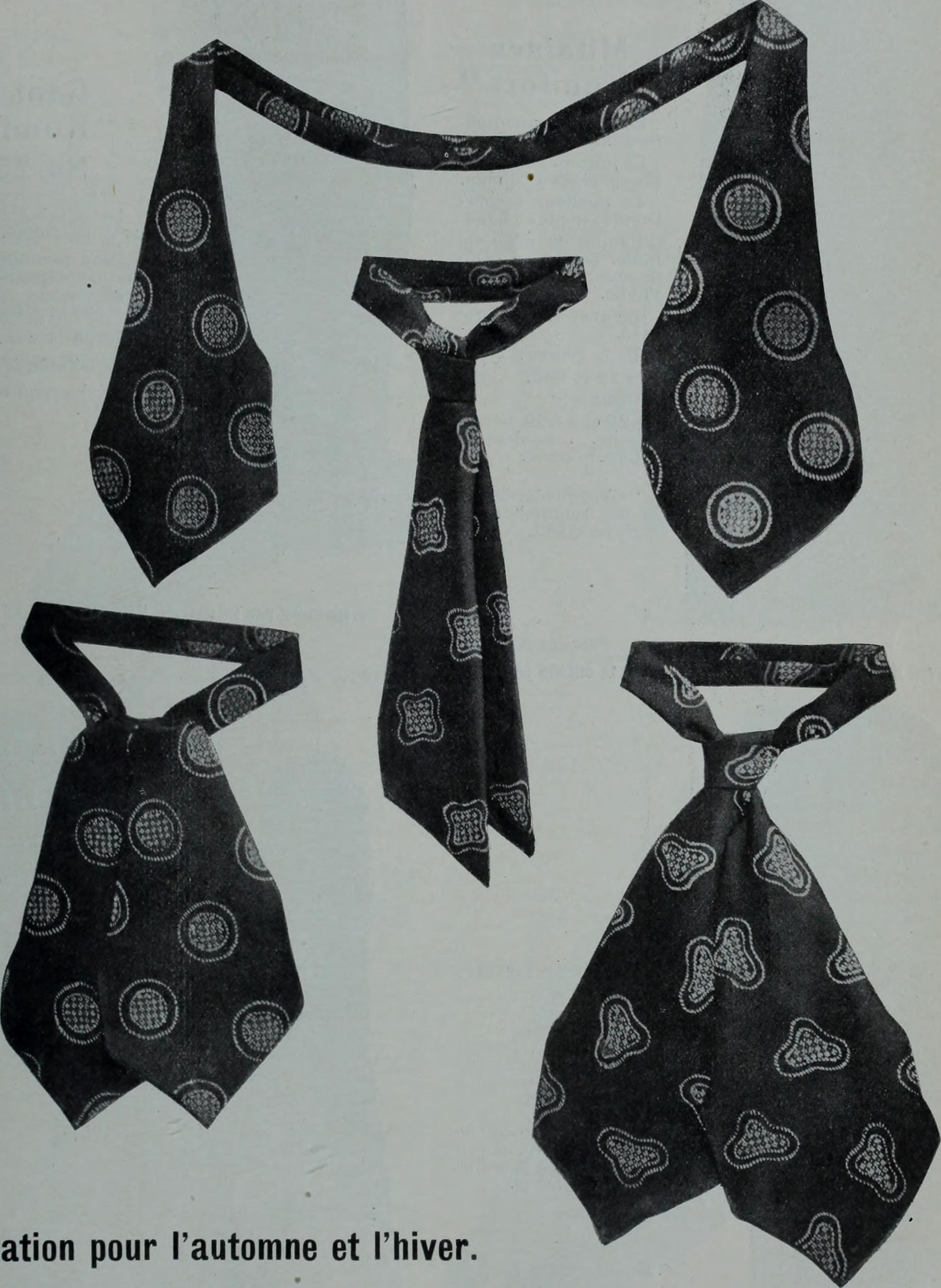 Title: Tissus et nouveauts 1900 Year: 1900 (1900s) Authors: Subjects: Clothing and dress Dressmaking Dry-goods Publisher: Montréal : A. & H. Lionais Text Appearing Before Image: ine, ont vécu pour former tour de cou ; ce sontdésormais de gros renards, dautant plus luxueuxquils sont plus gros, et dautant plus précieux quilsdonnent moins de poids avec plus de volume: la légè-reté du poil, sa finesse, luniformité des poils et deleur nuance, le tassement égal des brins de la toison,sont autant de qualités qui distinguent les bellesfourrures. Nous les trouvons là, avec le renard blanc et lerenard noir, plus ou moins apprécié, suivant le poil;avec le renard roux, fauve, jaune ou rouge, le pluscommun entre tous et dont la teinte se confond siaisément avec celle du lynx; avec le renard bleu (aupoil gris bleuté) et, enfin, avec le renard argenté, leplus rare de tous. On voit aussi des boas ionds, dau-tres plats, ce qui annonce le retour dans la mode detoutes sortes de tour de cou en fourrure. En suivant cette galerie, vers la porte Eapp, ontrouvo les eostumes de fourrure. Nous ne les détail-lerons pas, bien que la décomposition dun tel costume IV-IN-I Text Appearing After Image: Une création pour lautomne et lhiver. NIAGARA NECKWEAR COMPANY, Limited MONTREAL - 207, rue St-JacquesQUEBEC - • 1 1 1, rue St-JosephWINNIPEG - 515, Bloc Mclntyre NIAGARA FALLS, ONT. 412 OU EN EST CET ORDRE DASSORTIMENT ? ENVOYEZ-LE MAINTENANT. COMMANDEZ SUIVANT LE NO CI-DESSOUS - DES AUJOURD HUI.